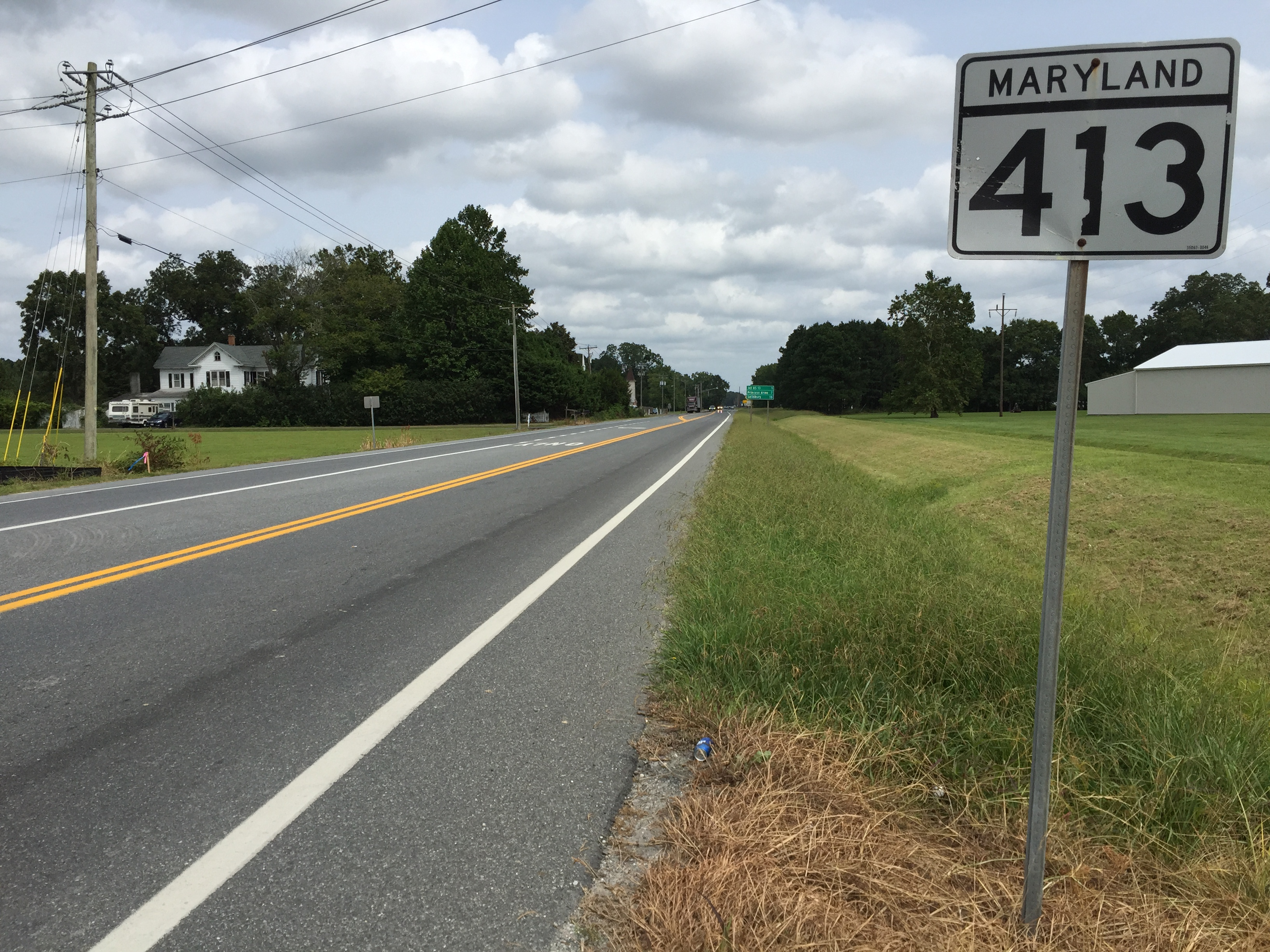 View north along Maryland State Route 413 (Crisfield Highway) at Maryland State Route 361 (Fairmount Road) in Westover, Somerset County, Maryland